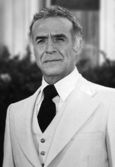 Photo of Ricardo Montalban and Herve Villechaize from the television program Fantasy Island.